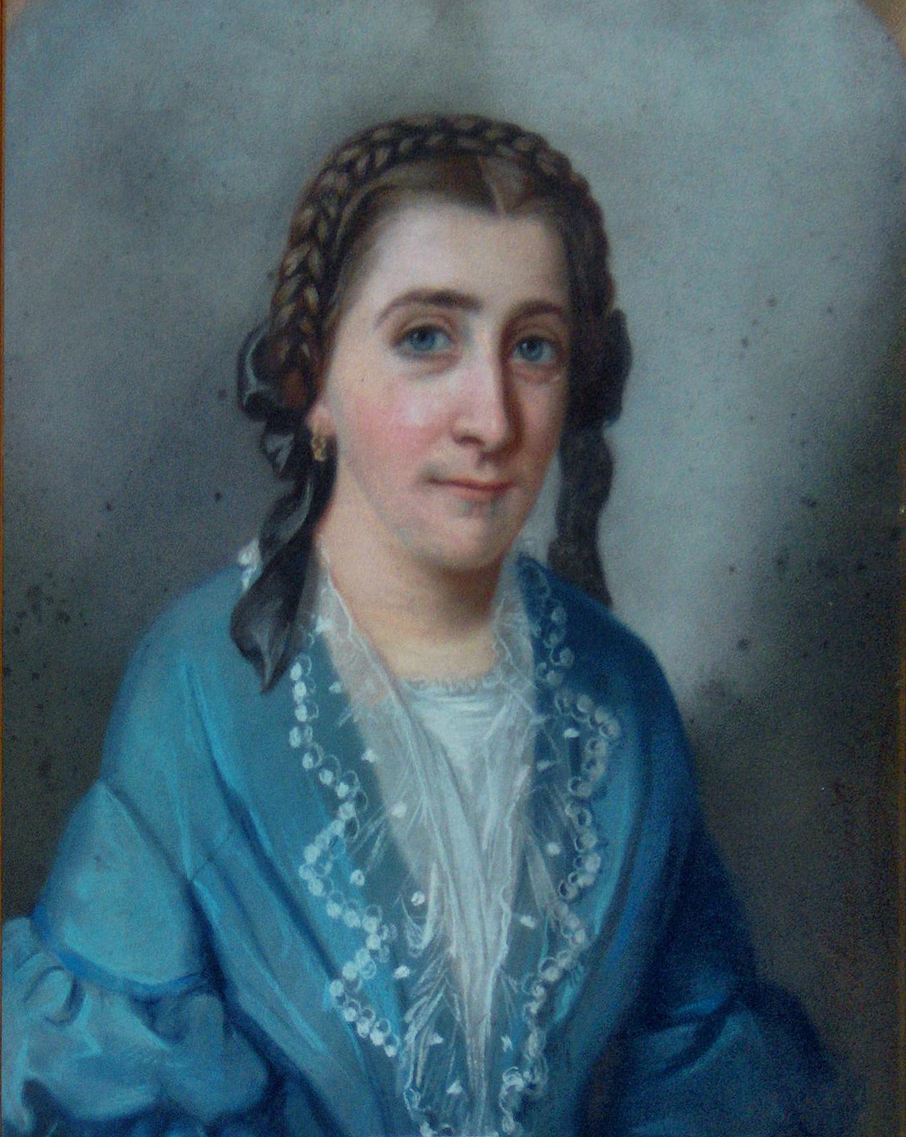 "Noblewoman" (1856), oil painting by Palmyre Smits; private collection